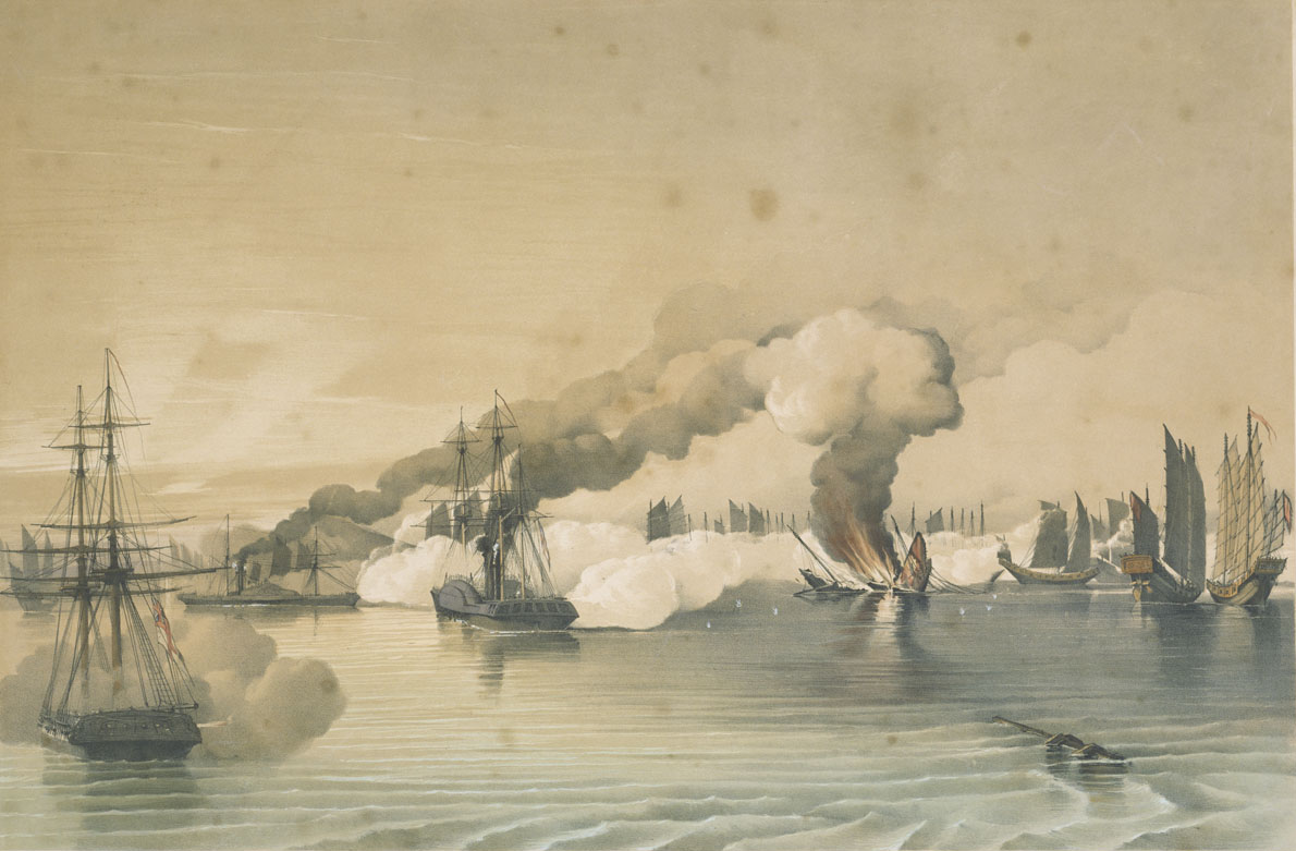 Attack on, and destruction of, part of the pirate squadron of Shap Ng-tsai, in the Gulf of Tonkin on 21 October 1849 by the Columbine, Fury, Phlegethon, and two boats of Hastings.